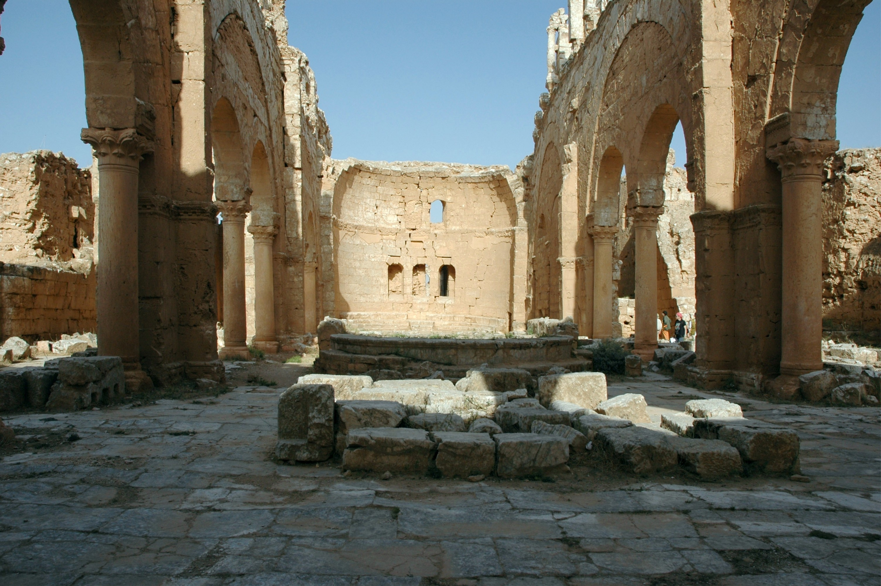 Byzantine cathedral, central nave and apse, Sergiopolis in 2004